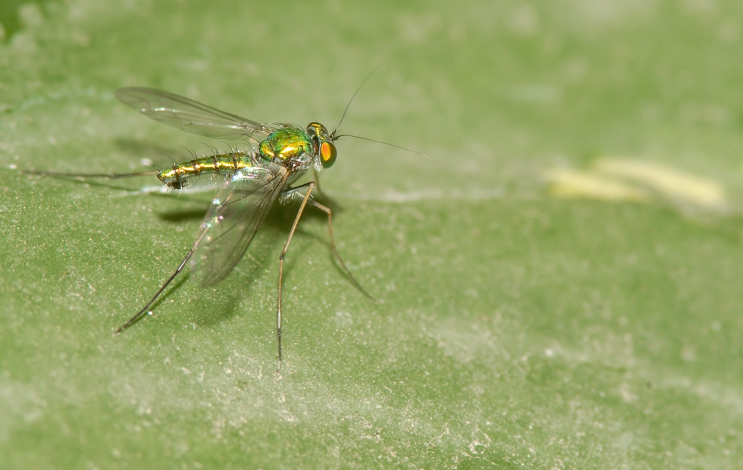 Long-legged fly (Dolichopodidae) sitting on a leaf